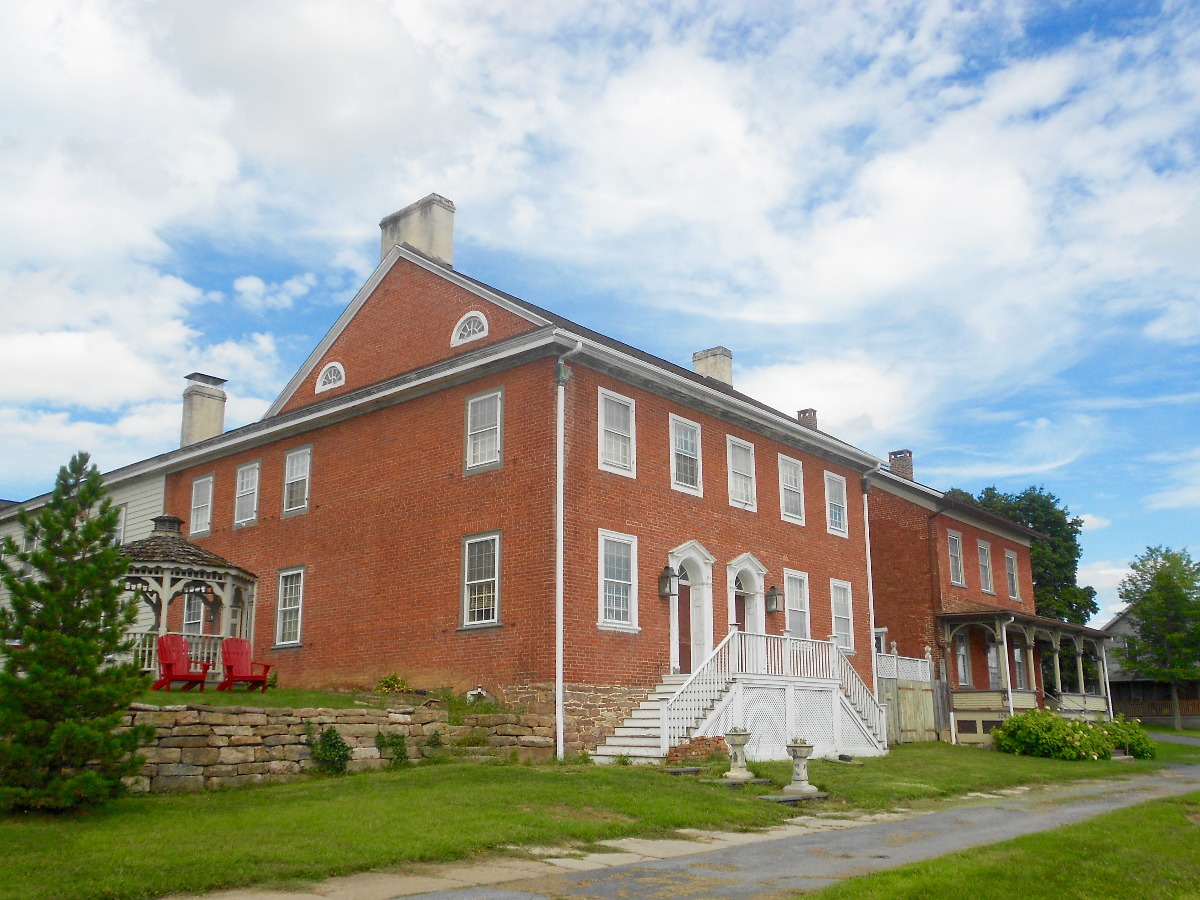 Aaaronsburg Inn in the Aaronsburg Historic District, listed on the NRHP on September 2, 1980 (#80003452). On Pennsylvania Route 45 in Aaronsburg, Haines Township, Centre County, Pennsylvania. 40°54′02″N 77°27′10″W